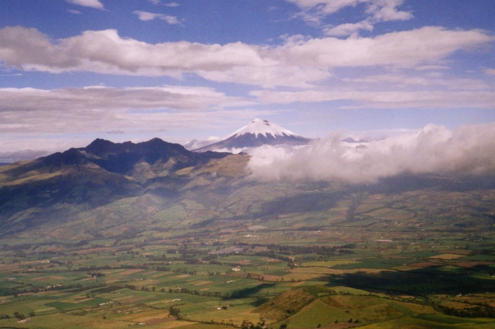 Cotopaxi and Ruminahui as seen from top of volcano Corazón